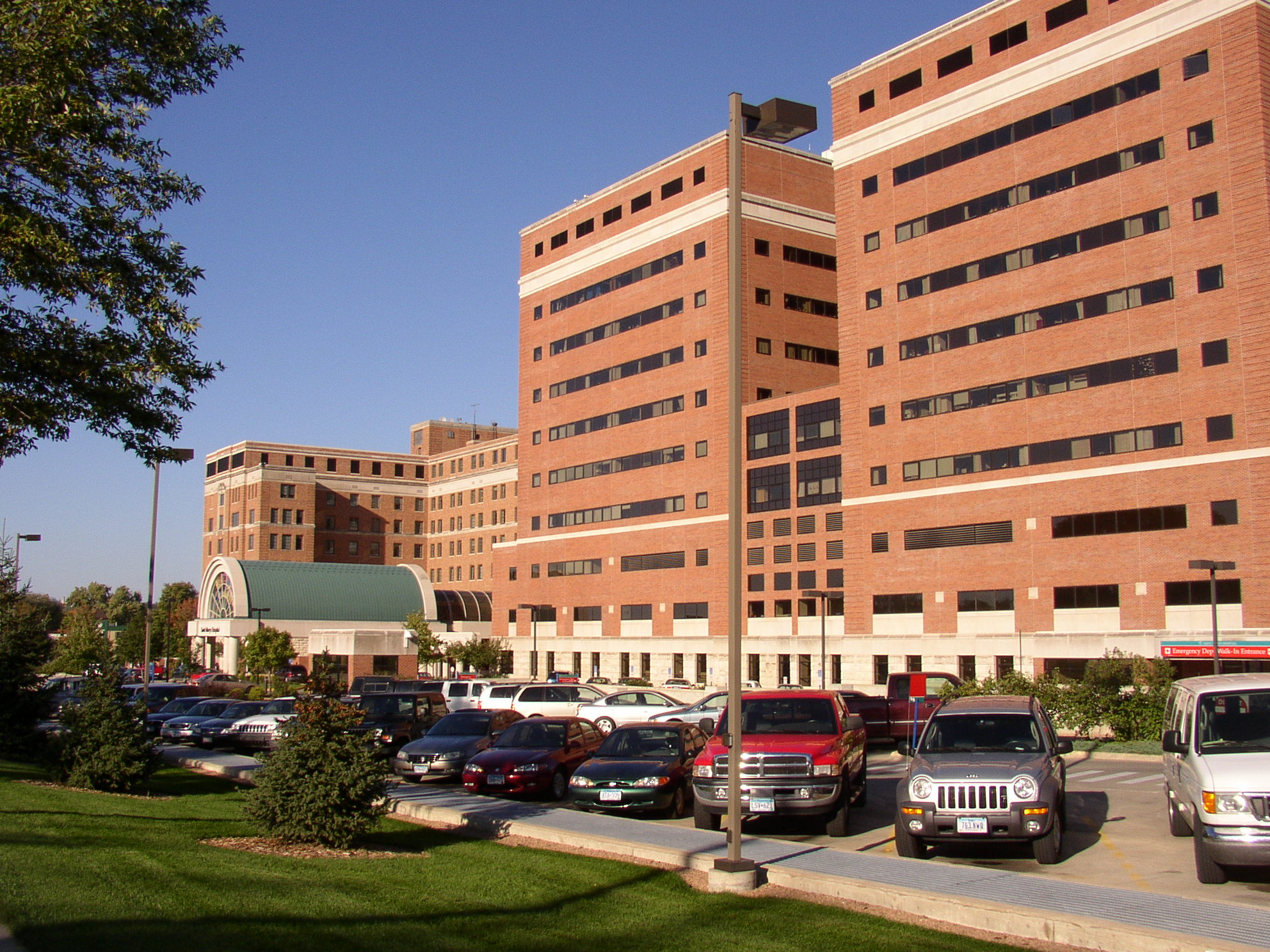 Mayo Clinic's Saint Marys Hospital in Rochester, Minnesota: main entrance. I, User:Knowledge Seeker, took this photograph on September 27, 2005.